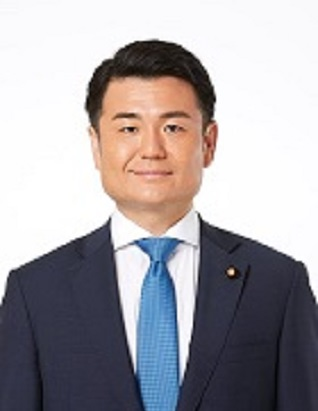 w:ja:河野義博 (政治家)|Kawano Yoshihiro was inaugurated as :w:ja:農林水産大臣政務官|Parliamentary Vice-Minister for Agriculture, Forestry and Fisheries on September, 2019